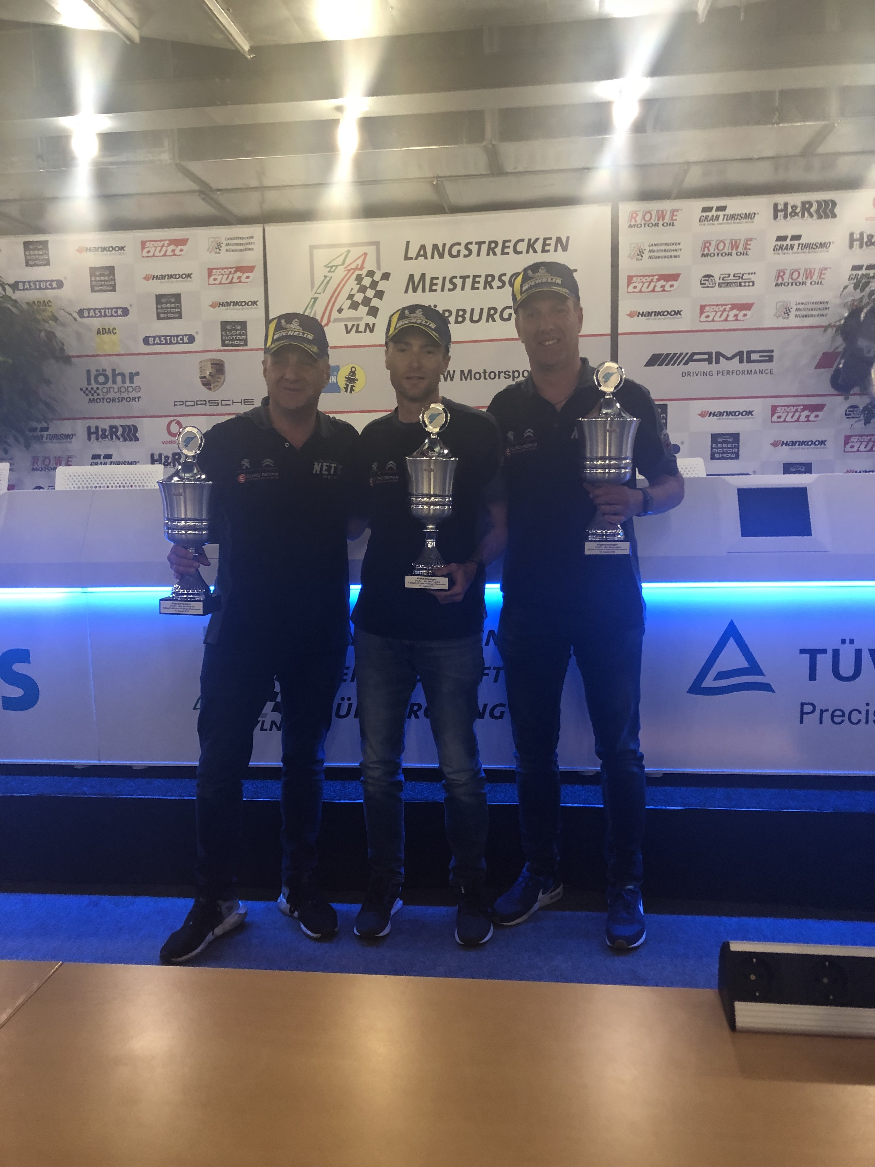 VLN SP2T Winners Rowe 6 Hours 2018